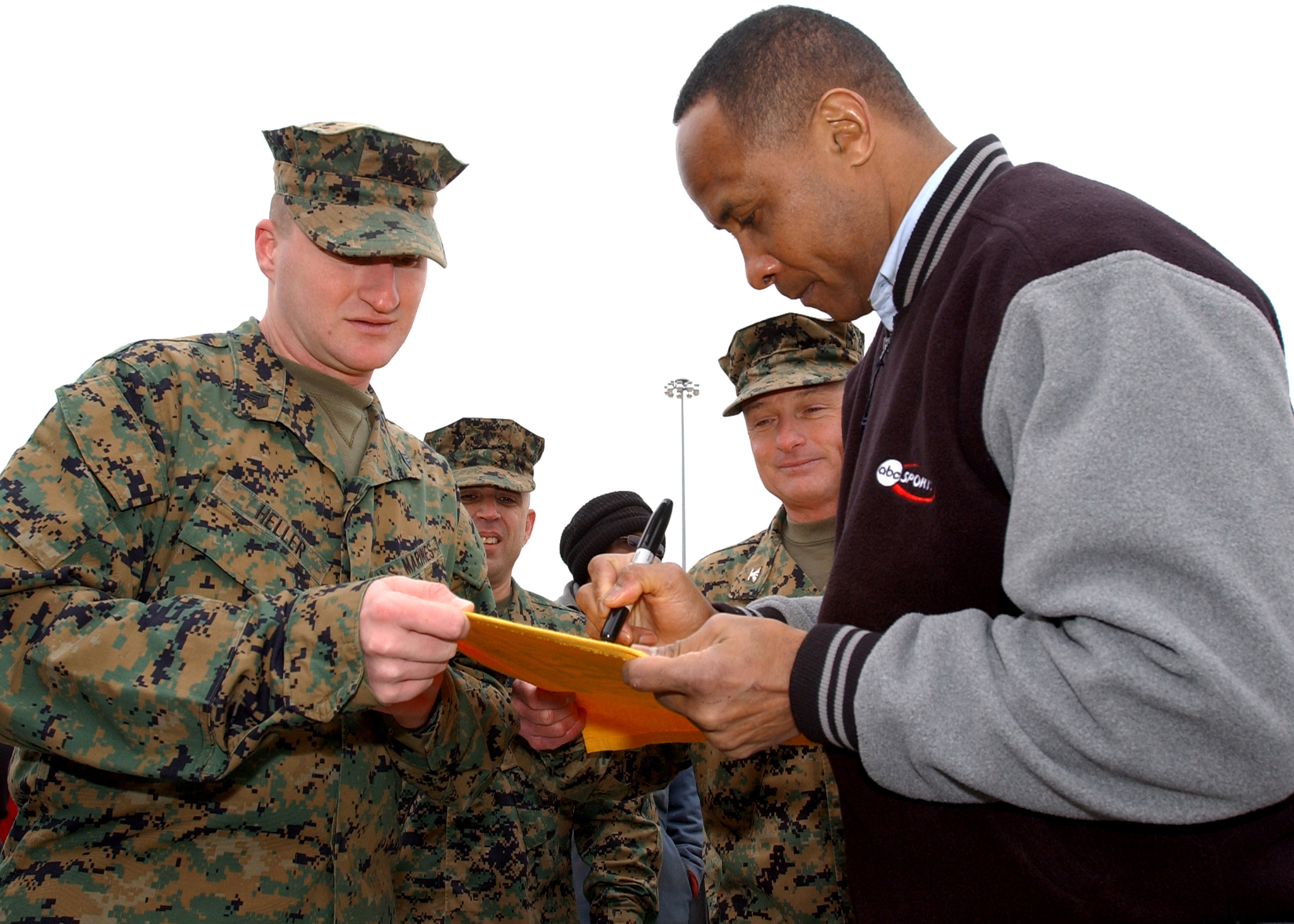 Marine Corps Sgt. Charles Heller, assigned to Blount Island Command, receives an autograph from National Football League (NFL) Hall of Famer Lynn Swann. Swann played for the Pittsburgh Steelers from 1974-1982. Twenty-two NFL Hall of Fame players visited the Marines and Sailors assigned to Blount Island Command to show their support for the local Sailors and Marines as part of Super Bowl XXXIX kick-off festivities.